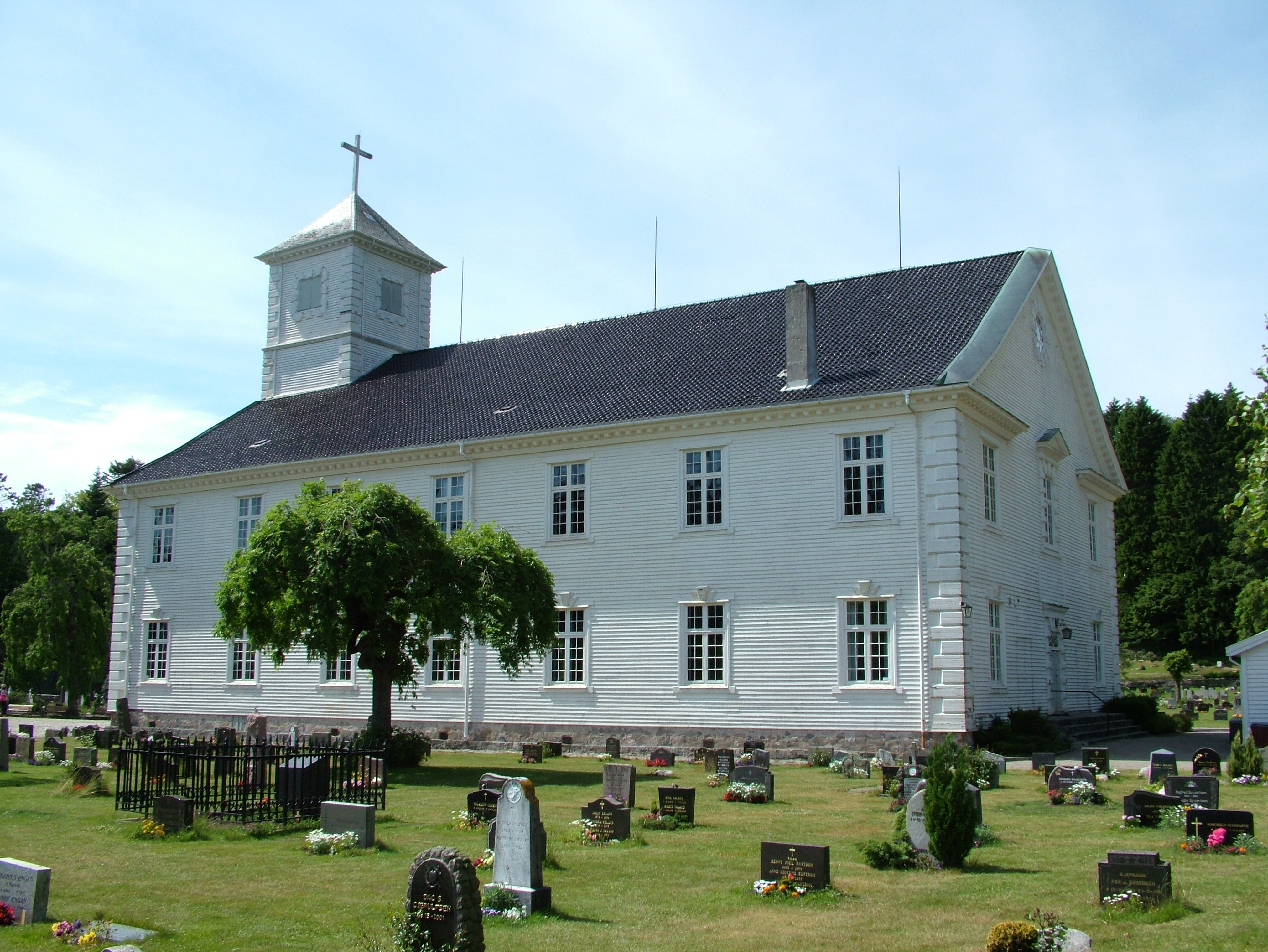 Mandal in Norway, the church